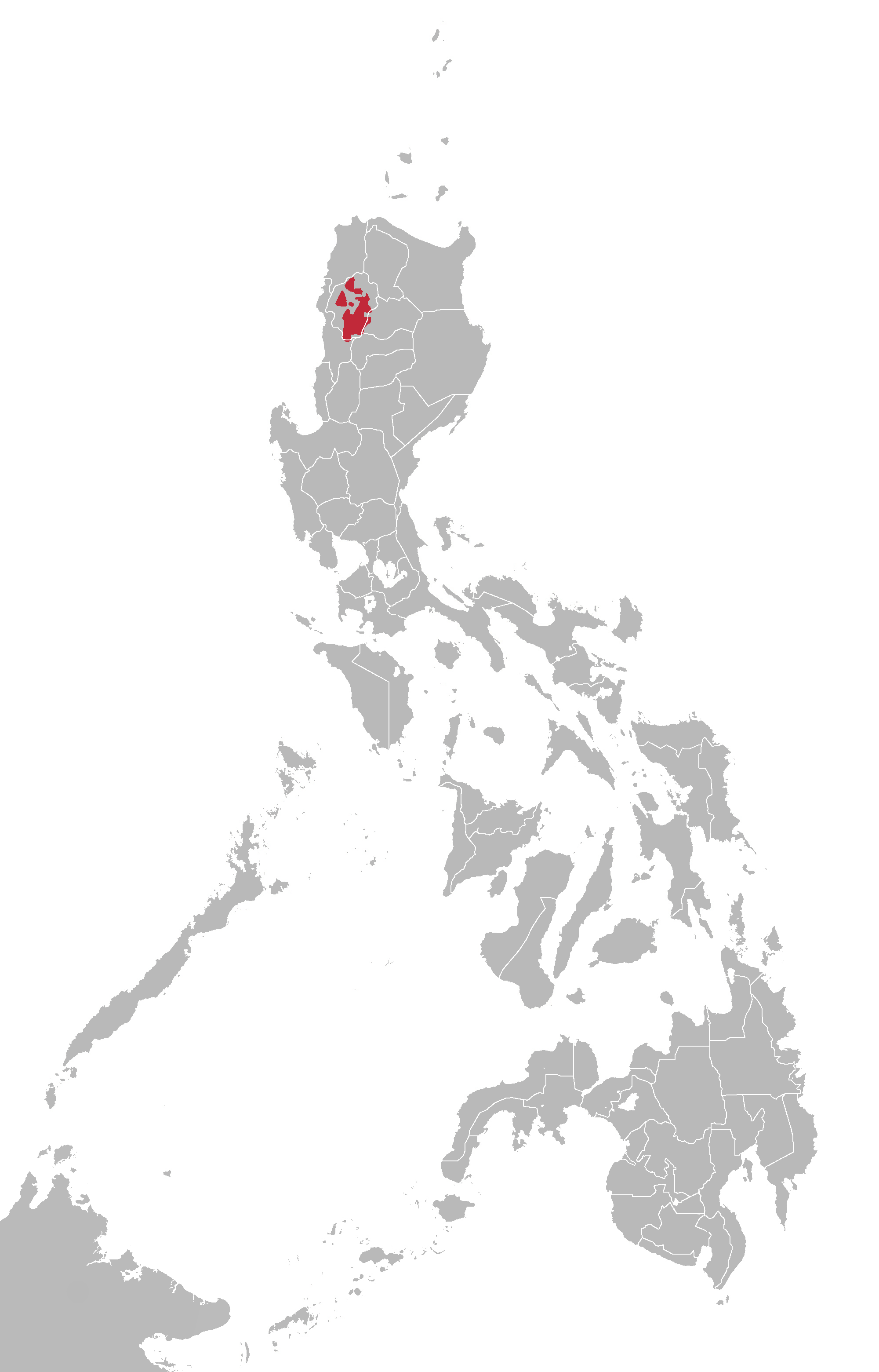 Itneg dialect continuum map based on Ethnologue maps